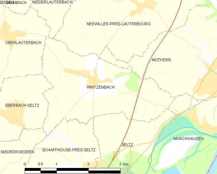 Map of French municipality